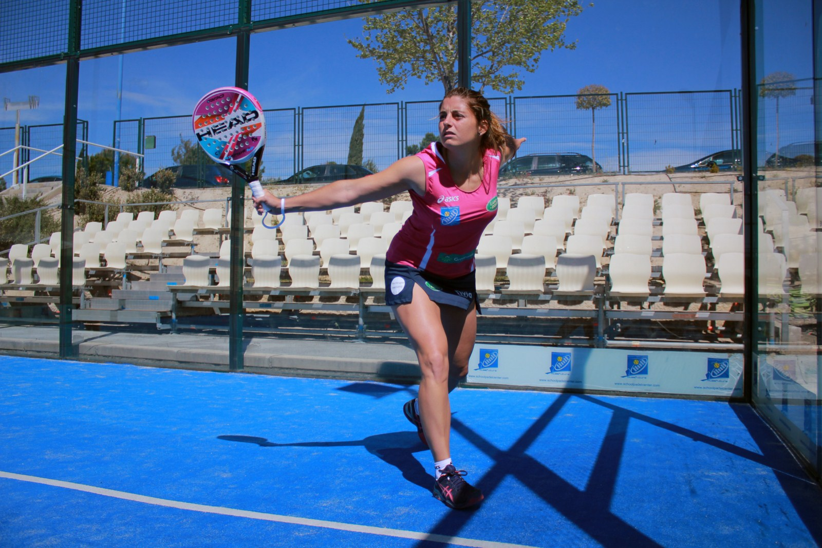 Alejandra